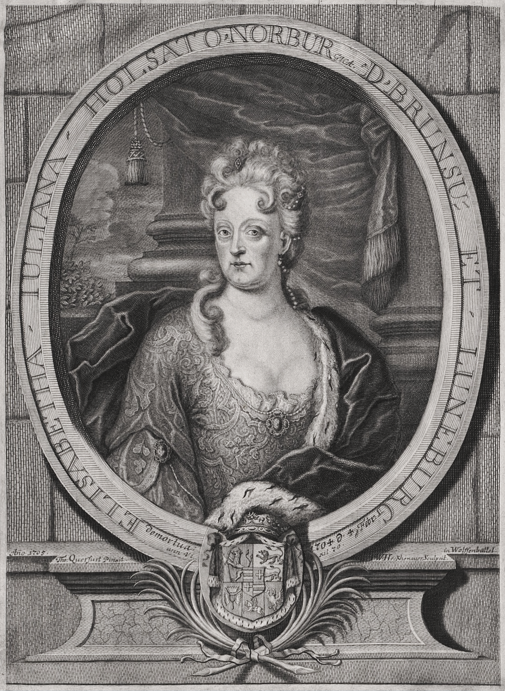 Elisabeth Juliana, Herzogin von Schleswig-Holstein-Norburg Kupferstich: Anno 1705 Tho. [= Tobias] Querfurt [d.Ä.] Pinxit. – I[acob] W[ilhelm] Heckhenauer Sculpsit in Wolffenbüttel. references =